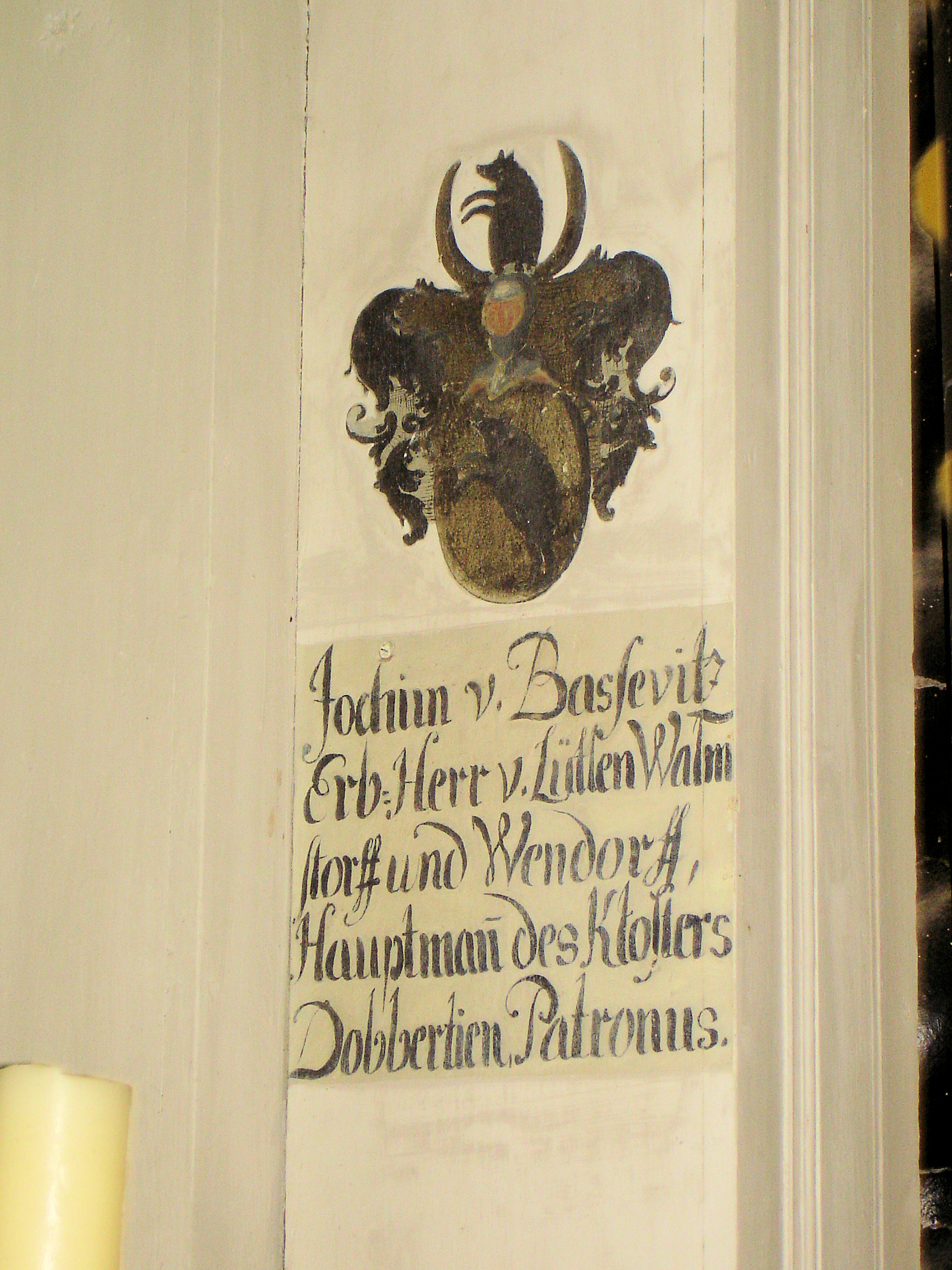 Detail of the altar in the church in Lärz, Mecklenburg, Germany